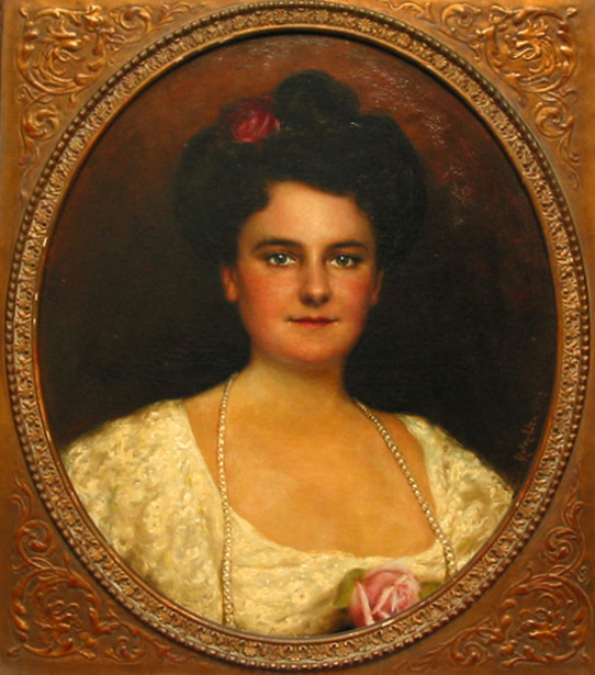 Adolfo Müller-Ury, KSG (March 29, 1862 – July 6, 1947) was a Swiss-born American portrait painter and impressionistic painter of roses and still life